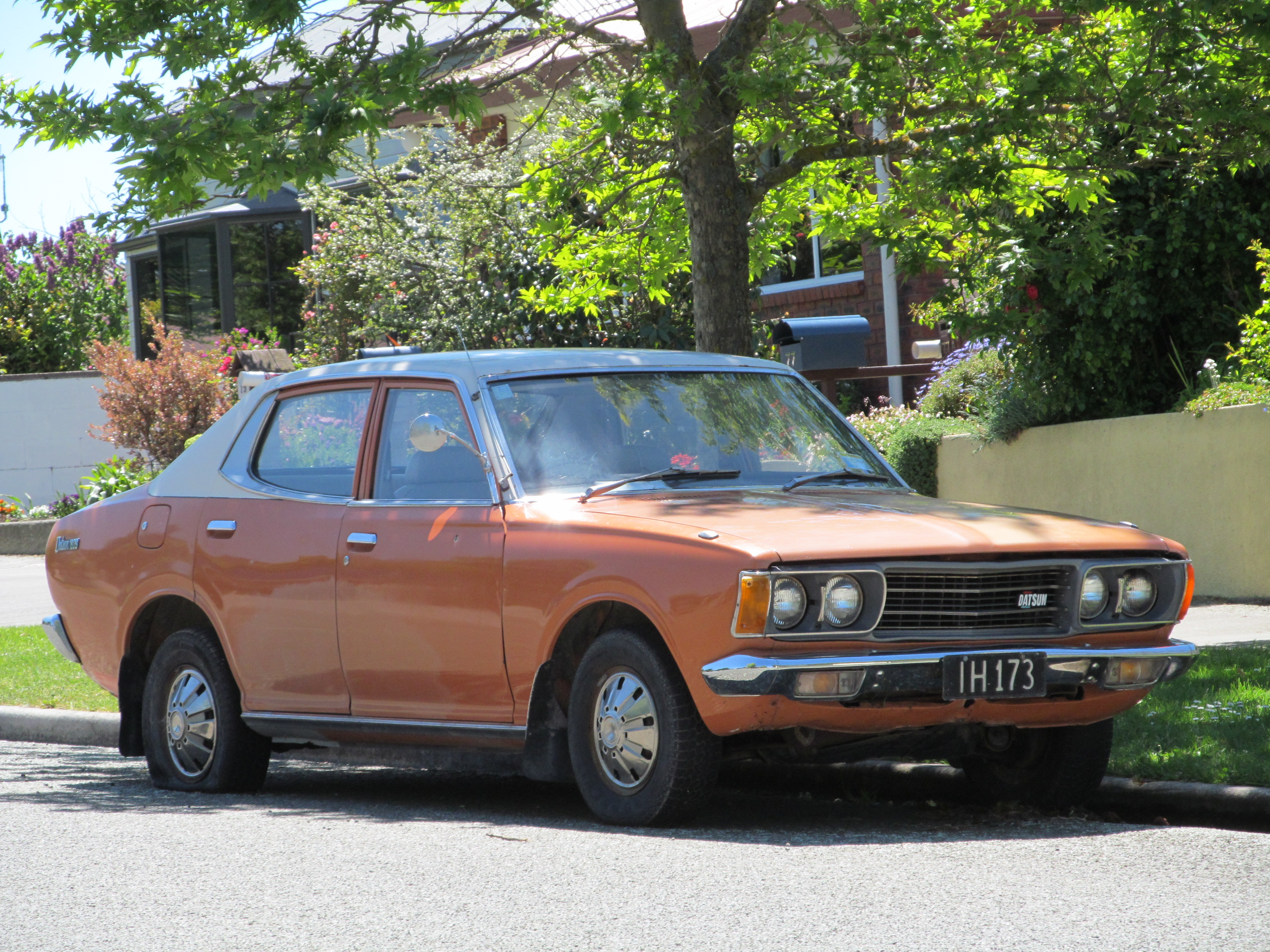 A surprise spot in Timaru two weeks ago - I saw it from a distance and wondered what on earth it was, which just goes to show how long it's been since I last saw one! Considering how many 120Ys I see (still not many) these have virtually disappeared off NZ's roads. Rust has claimed many of them.